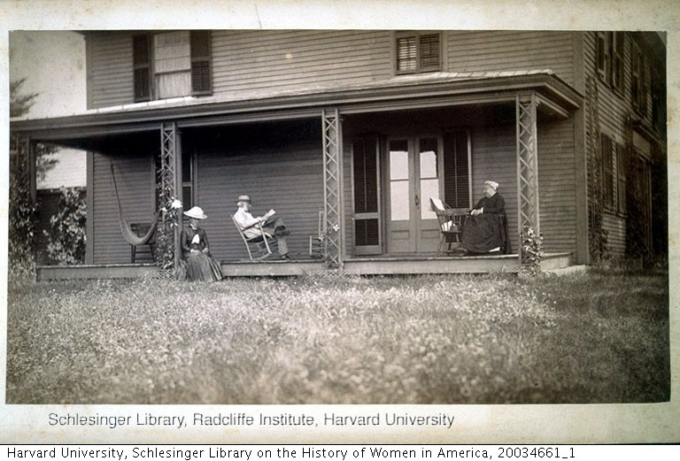 A photo of Dr. Charles E., Elizabeth C., and Mary Lee Ware seated on the porch of a house